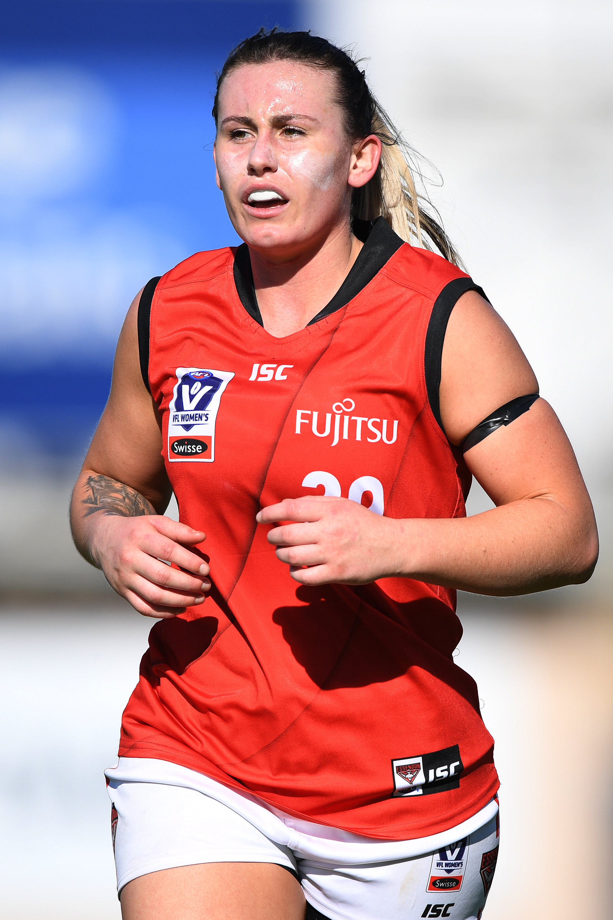 Maighan Fogas of Essendon during the 2019 VFLW Round 7 match between NT Thunder and Essendon at TIO Stadium on 22 June 2019 in Darwin, Australia.